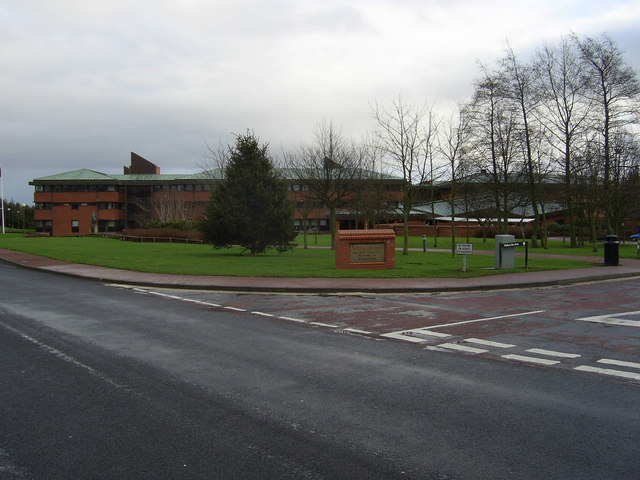 County Hall Morpeth Northumberland County Council Headquarters at Morpeth